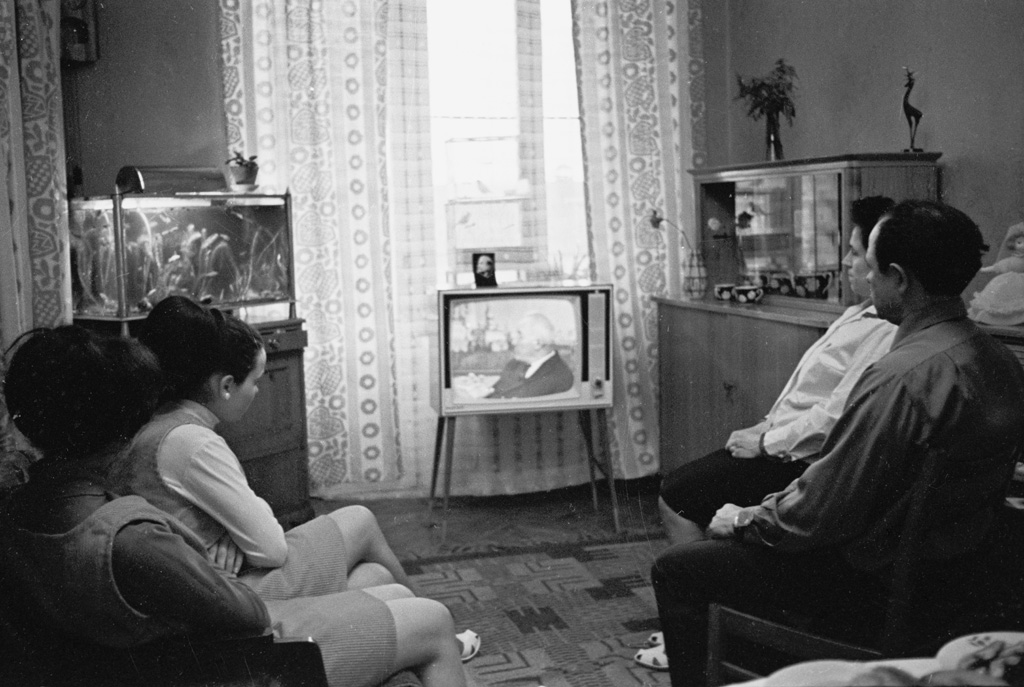 “The Borshagin's at home”. The Borshagin's, workers of Weaving Factory named after Yakov Sverdlov, having rest watching TV at home.